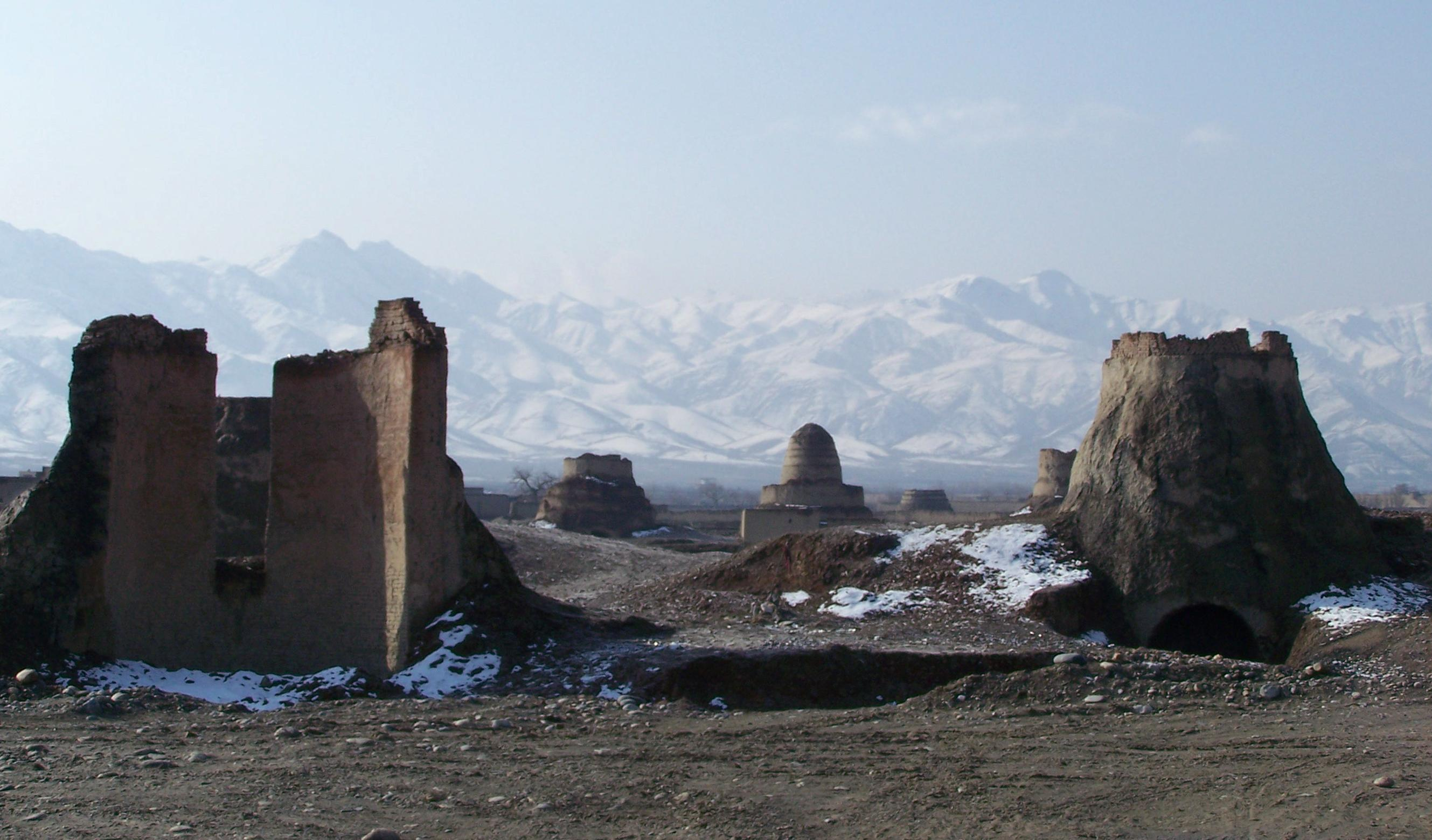 Brickyards east of Kabul, Afghanistan.